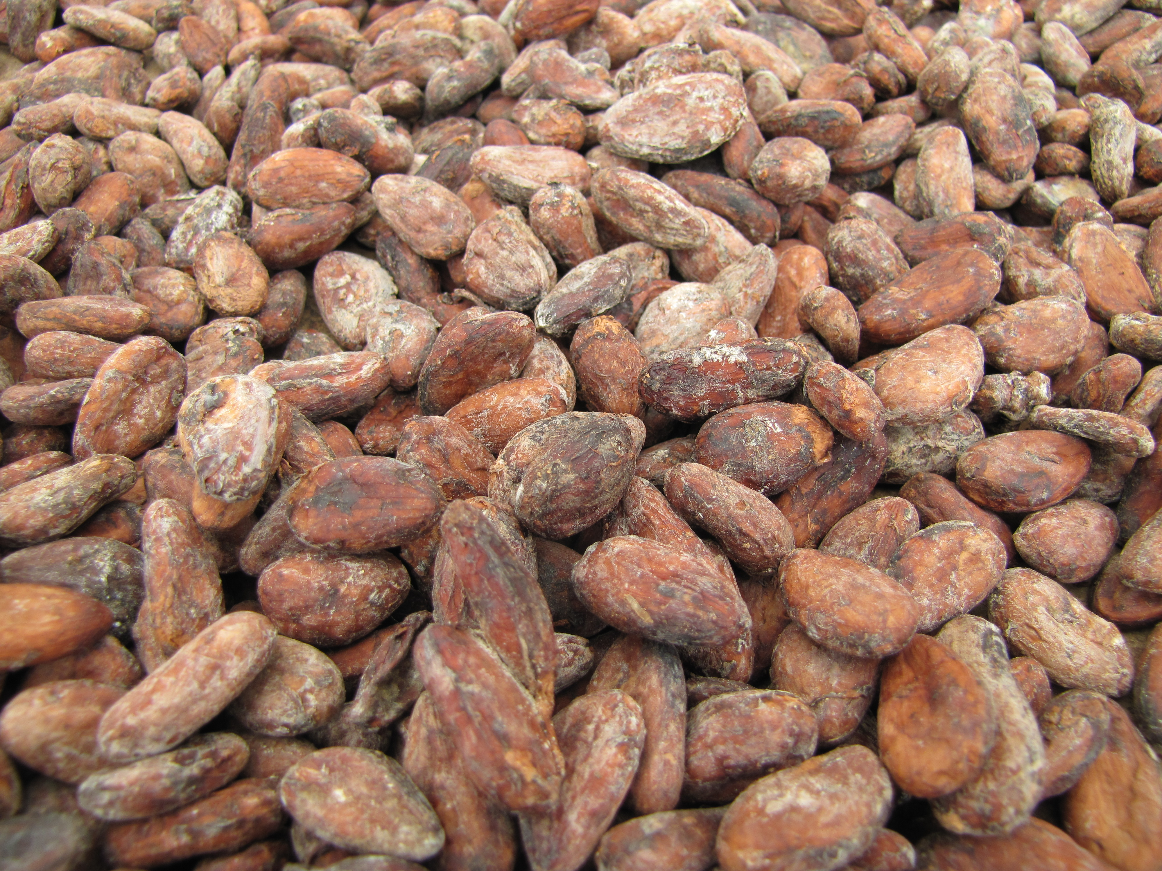 Sao Tome Monteforte Cocoa Beans Drying 2